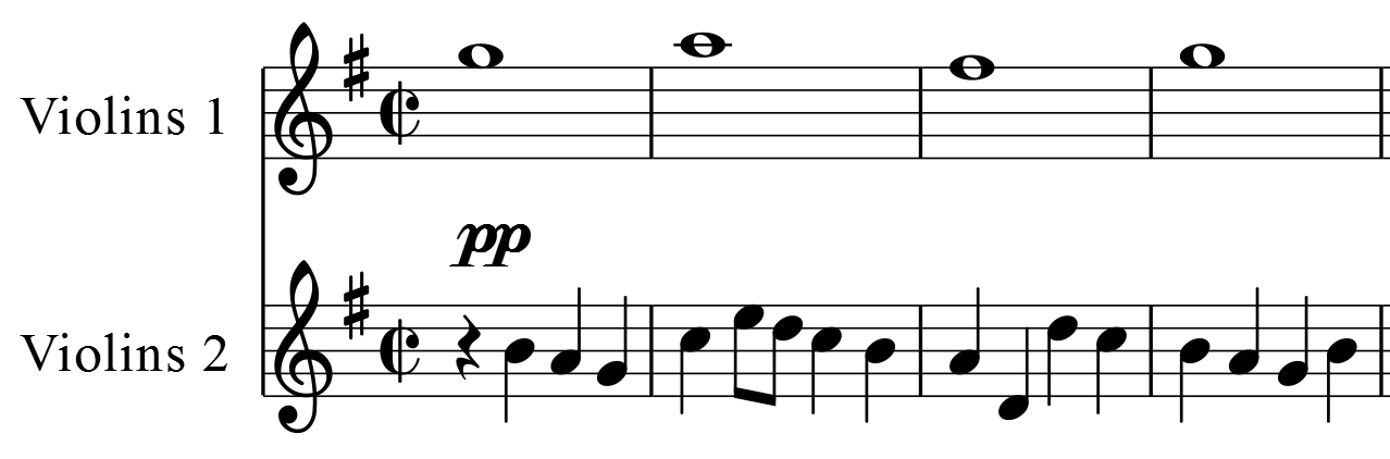 Joseph Haydn, Symphony No. 3, last movement, bar 1-4